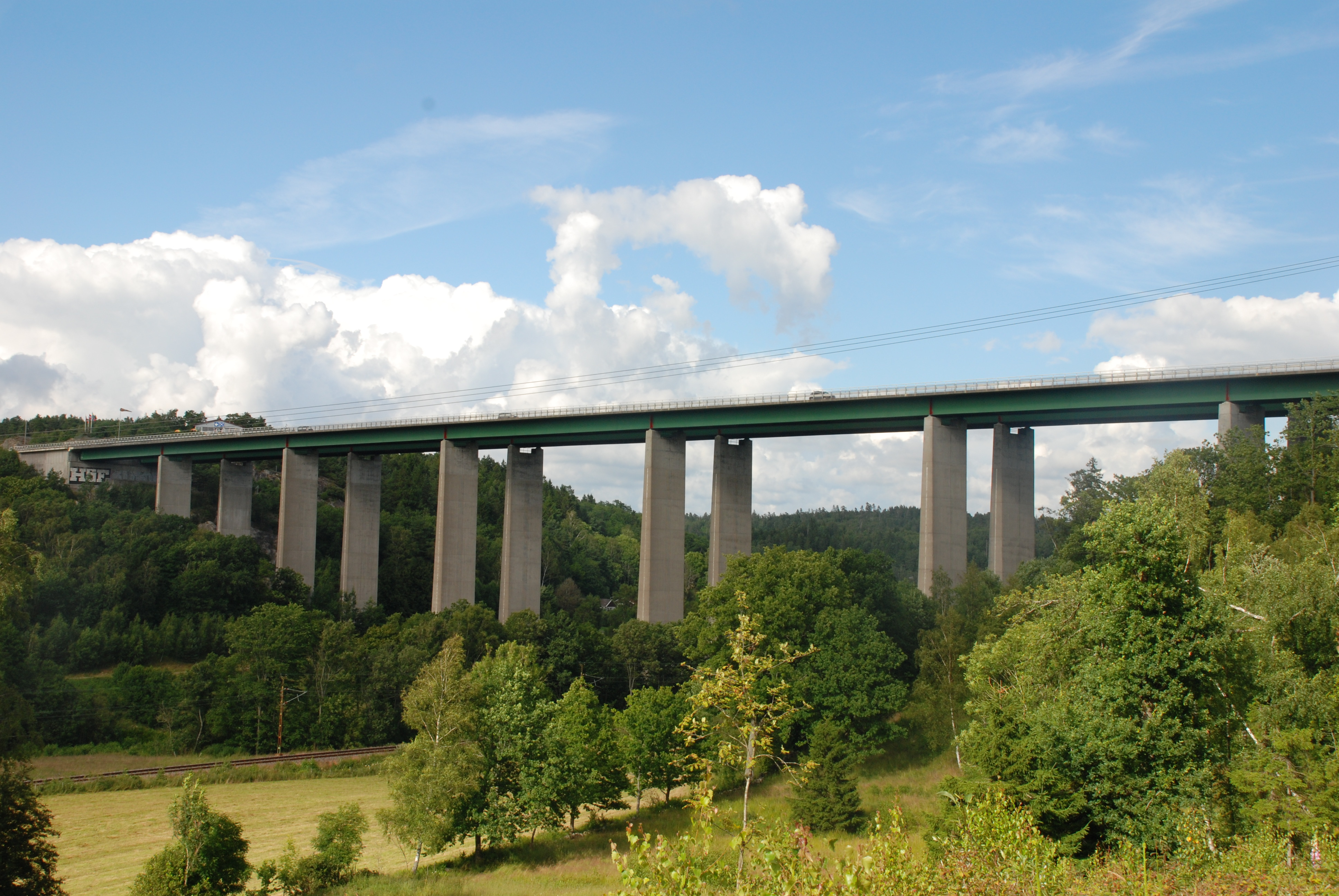 The highway bridge (E6) Ödsmålsbron across the Ödsmål valley in Stenungsund Municipality, Sweden.